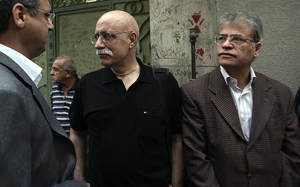 Funeral of Nemat Haghighi (14 8902120535 L600)